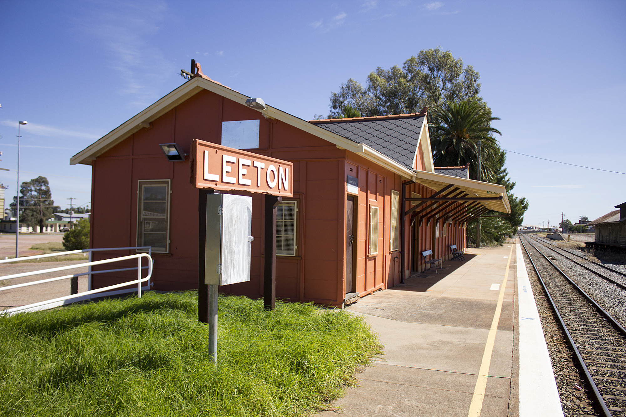 Leeton Railway Station and platform in Leeton, New South Wales.